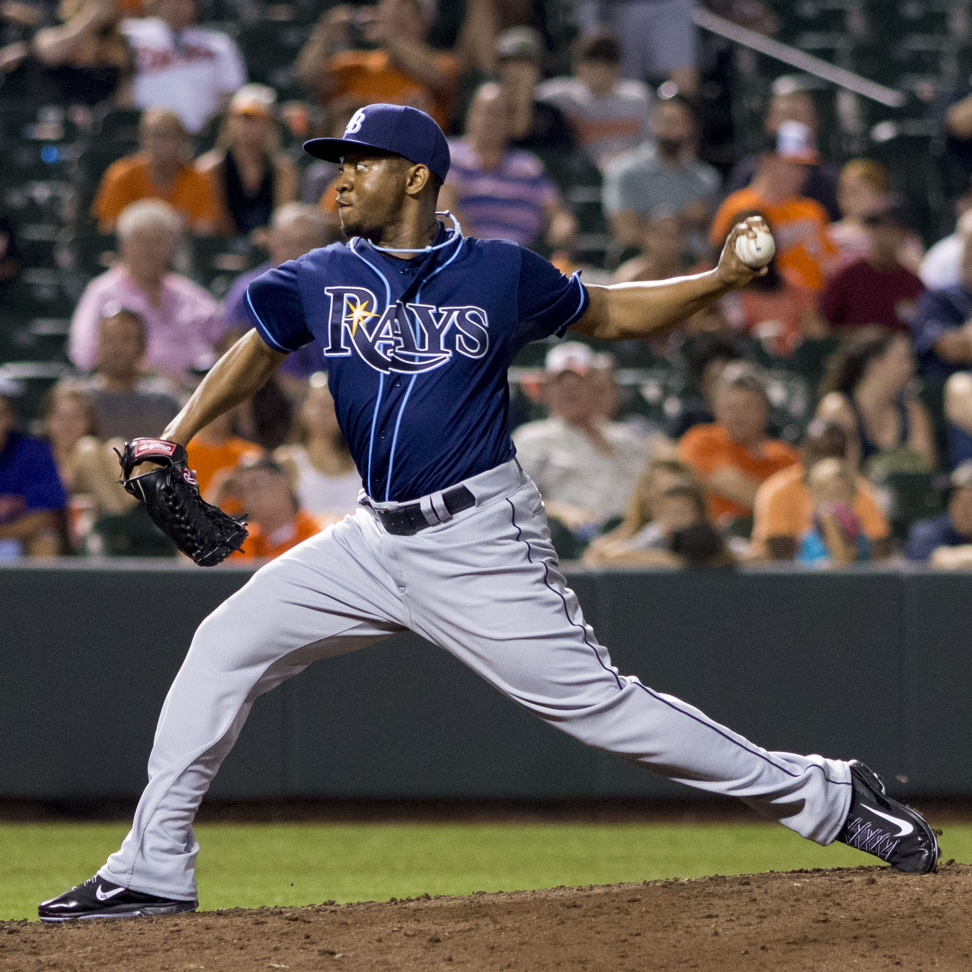 Wesley Wright